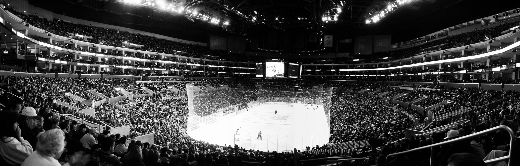 staples center panoramic - king's game